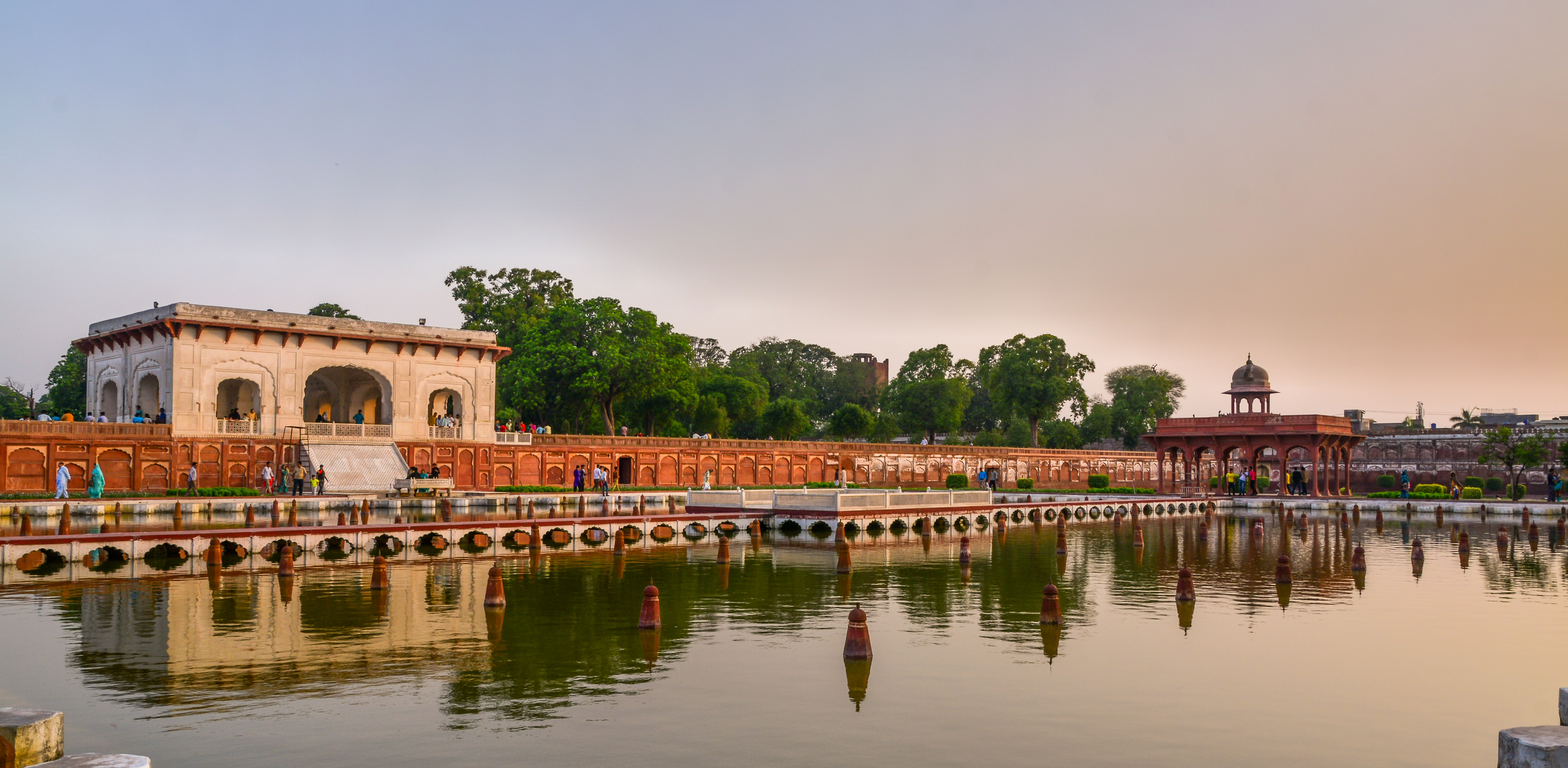 Shalimar Gardens This is a photo of a monument in Pakistan identified as the PB-84